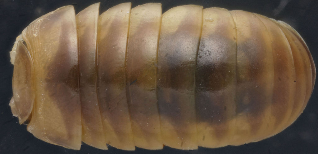 Habitus of Hyleoglomeris subreducta sp. n., a pigmented male paratype. Dorsal view.